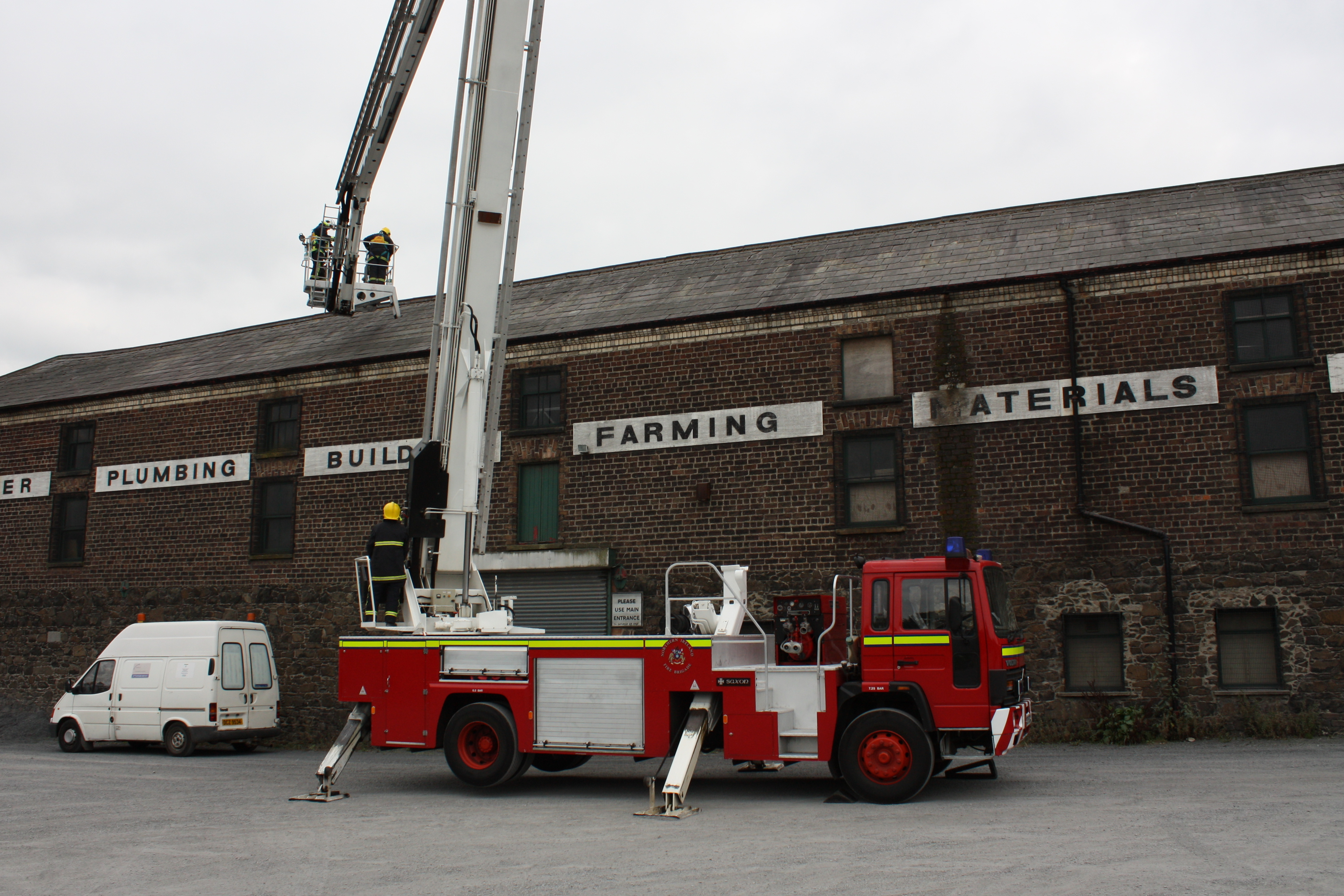 Fire engine at Shillington's Quay, Castle Street, Portadown, County Armagh, Northern Ireland, September 2009